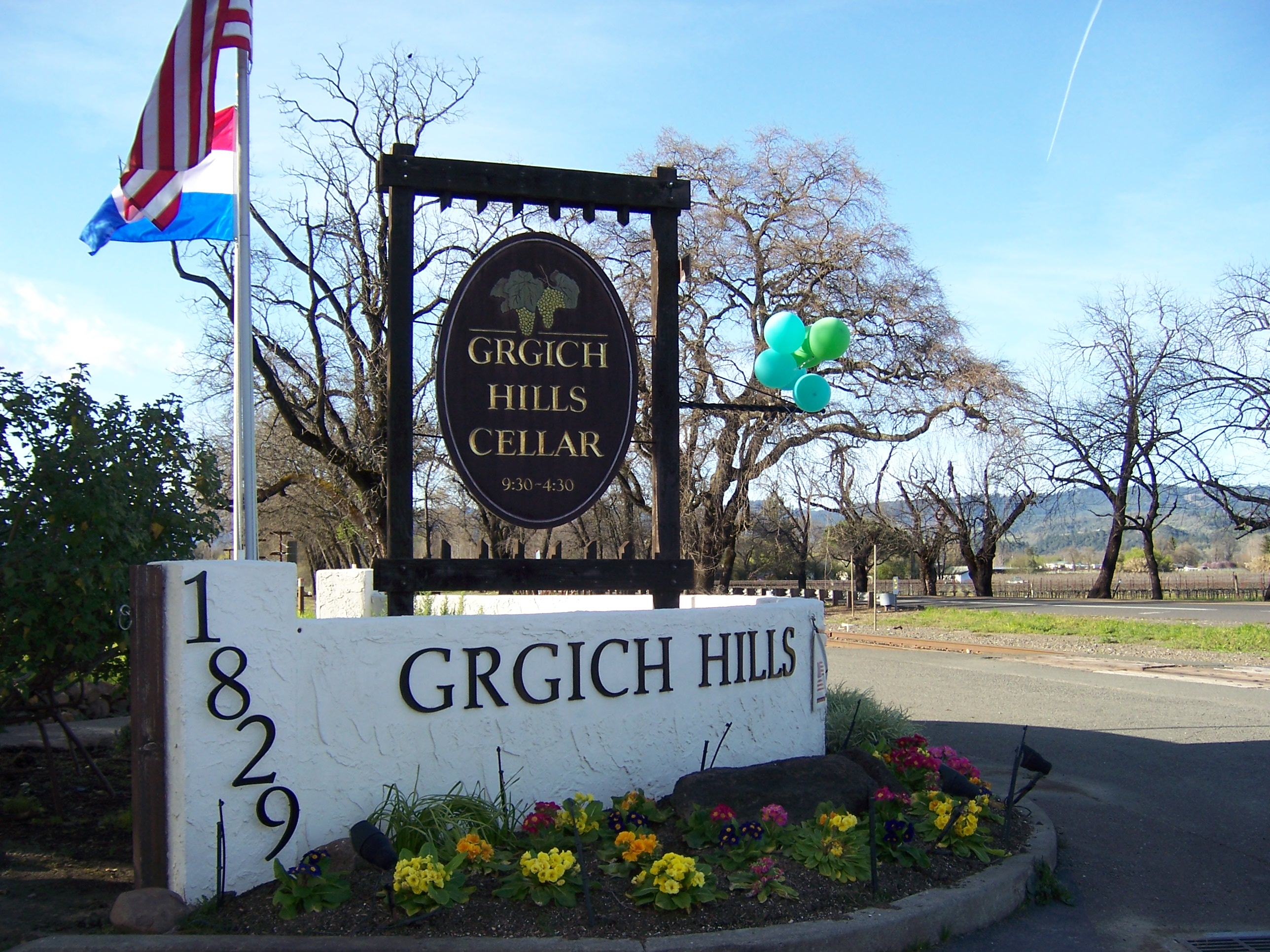 Entrance to the California winery Grgich Hills in Napa Valley California.